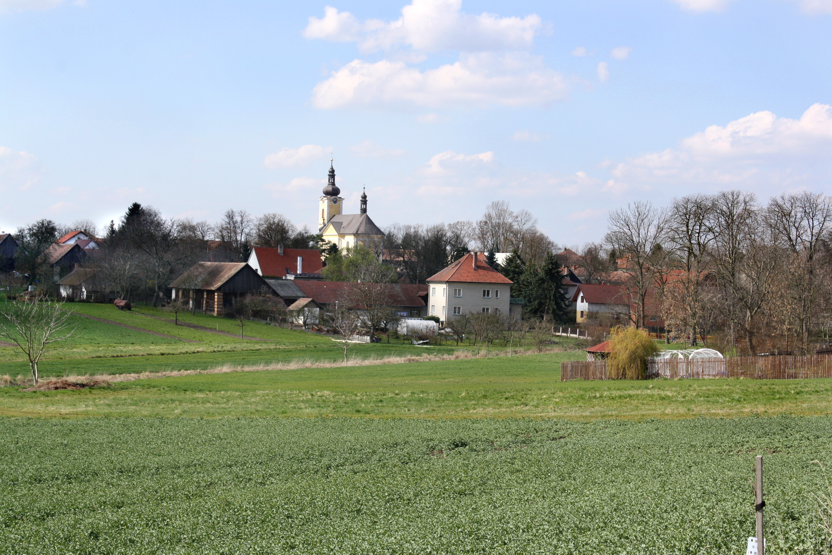 East view of Chroustov, Czech Republic